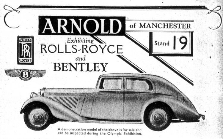 Bentley 3½-litre (#B129DK) Arnold saloon 1935, the company demonstrator.